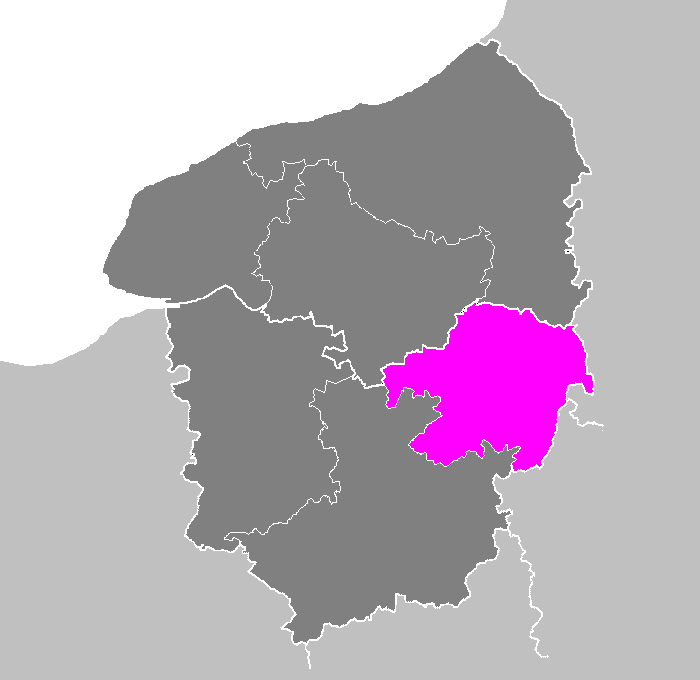 Maps of arrondissements and cantons of France: Arrondissement des Andelys.PNG